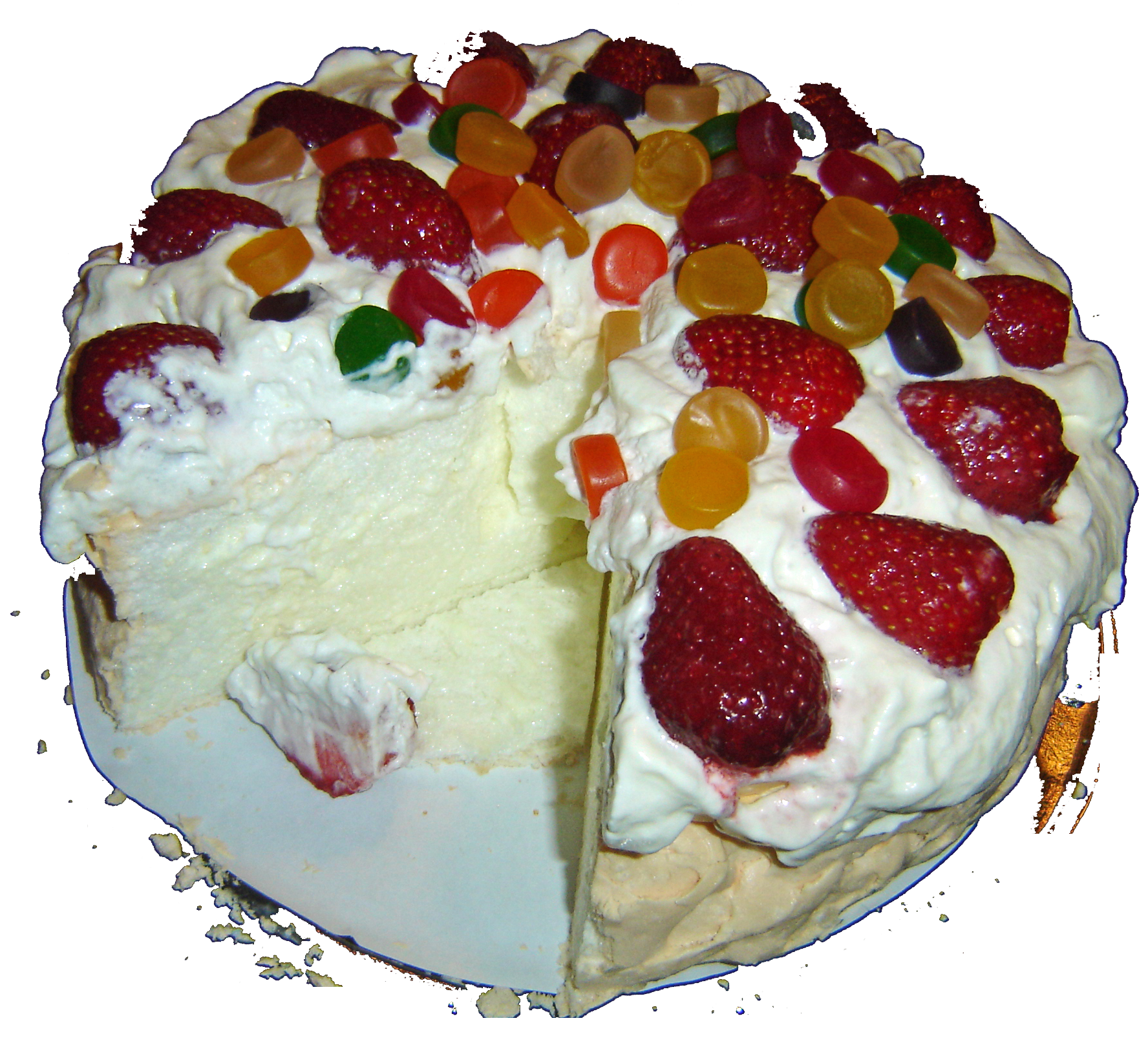 A store-bought New Zealand pavlova decorated with wine gums, strawberries and cream.